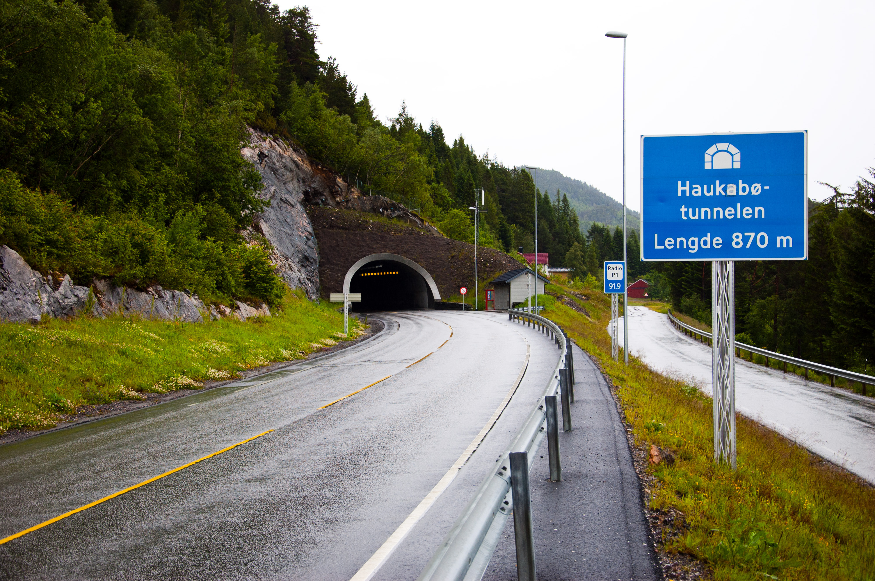 Haukabøtunnelen in Molde, Møre og Romsdal county, Norway.